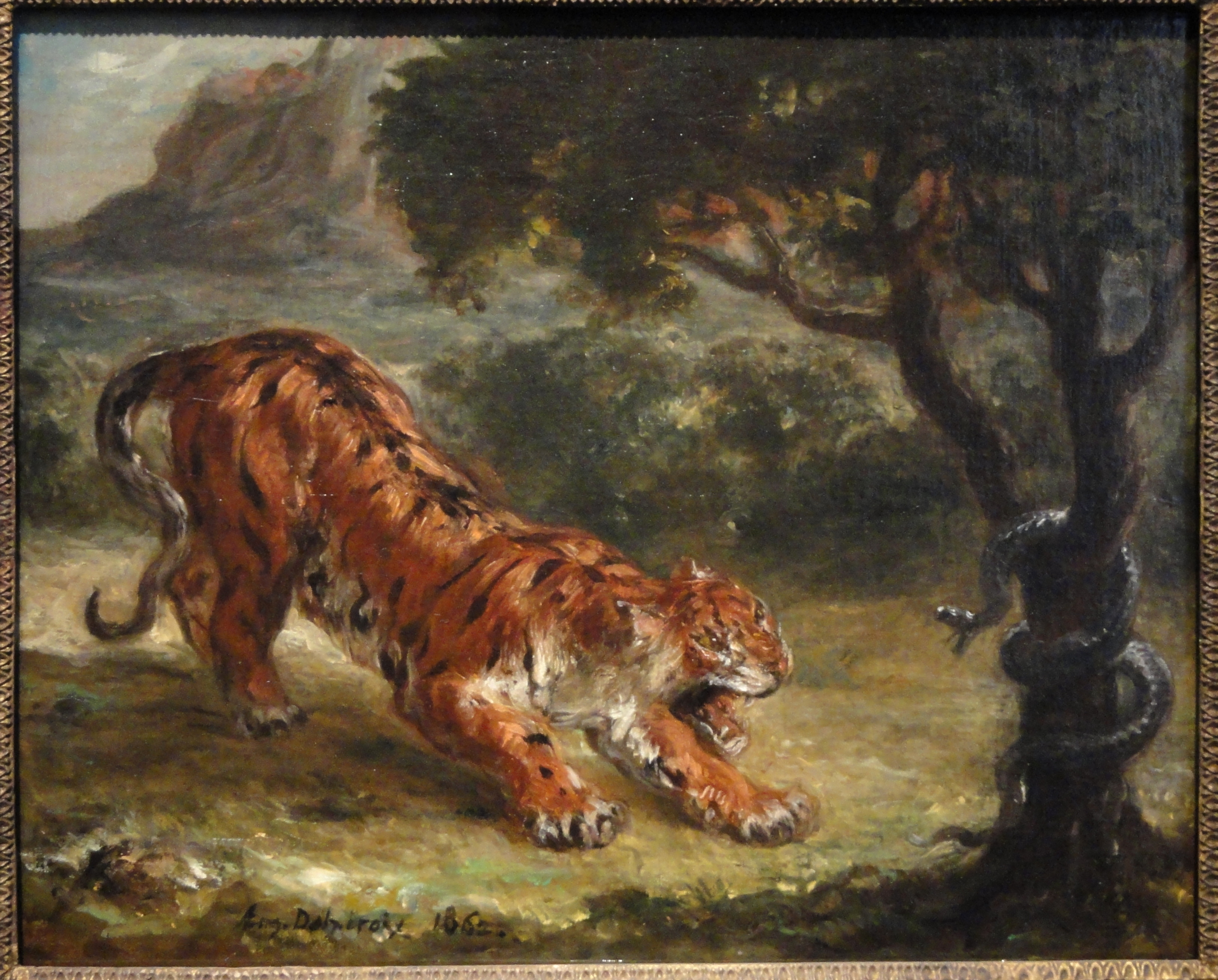 Painting exhibited in the Corcoran Gallery of Art, Washington, D.C., USA. There were no prohibitions against photography in the museum. This artwork is in the public domain because the artist died more than 70 years ago.